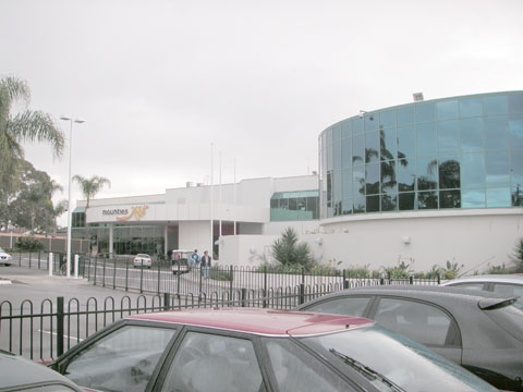 Mounties sports club in Mt Pritchard, NSW